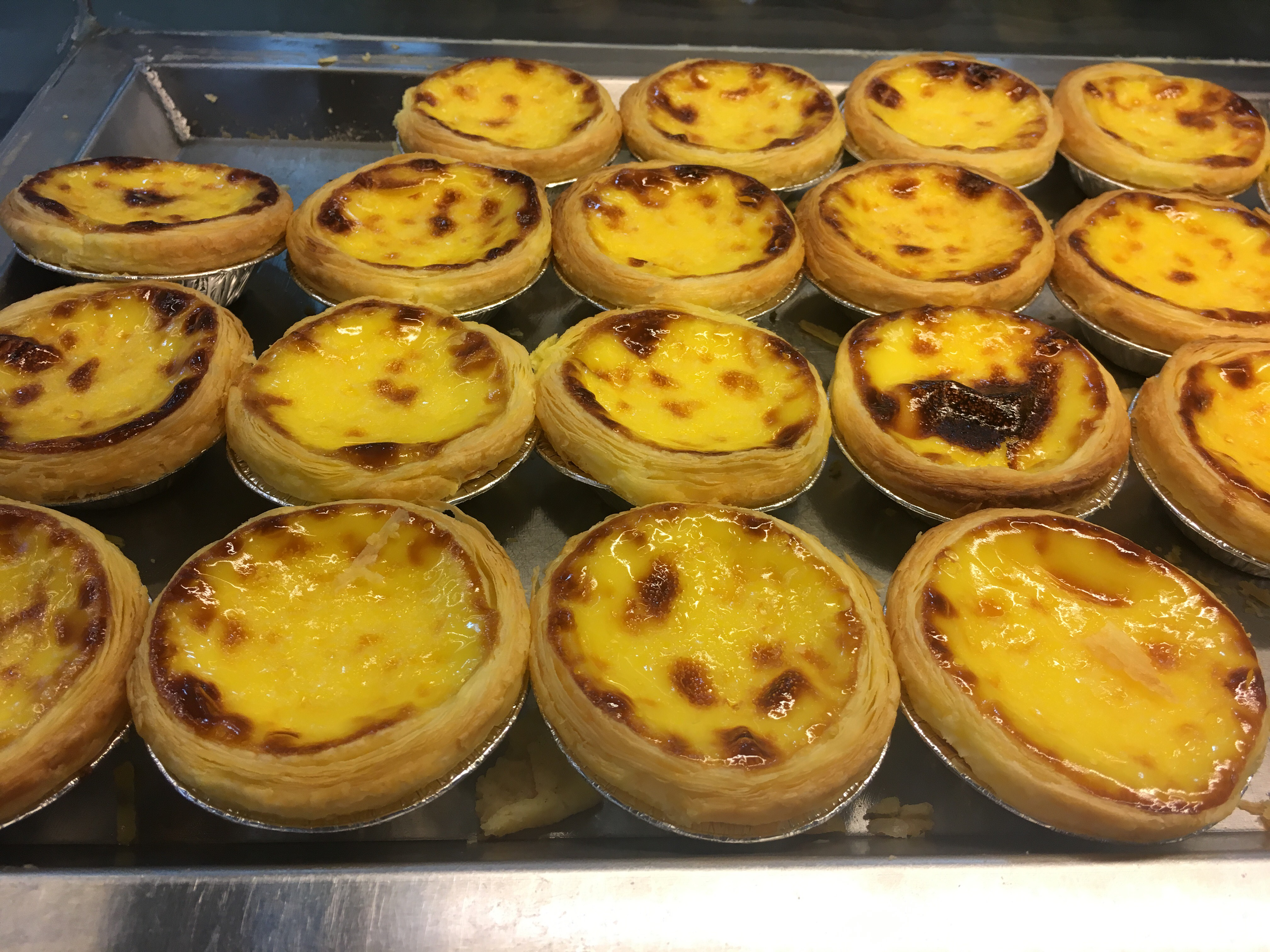 Macau Eggtart